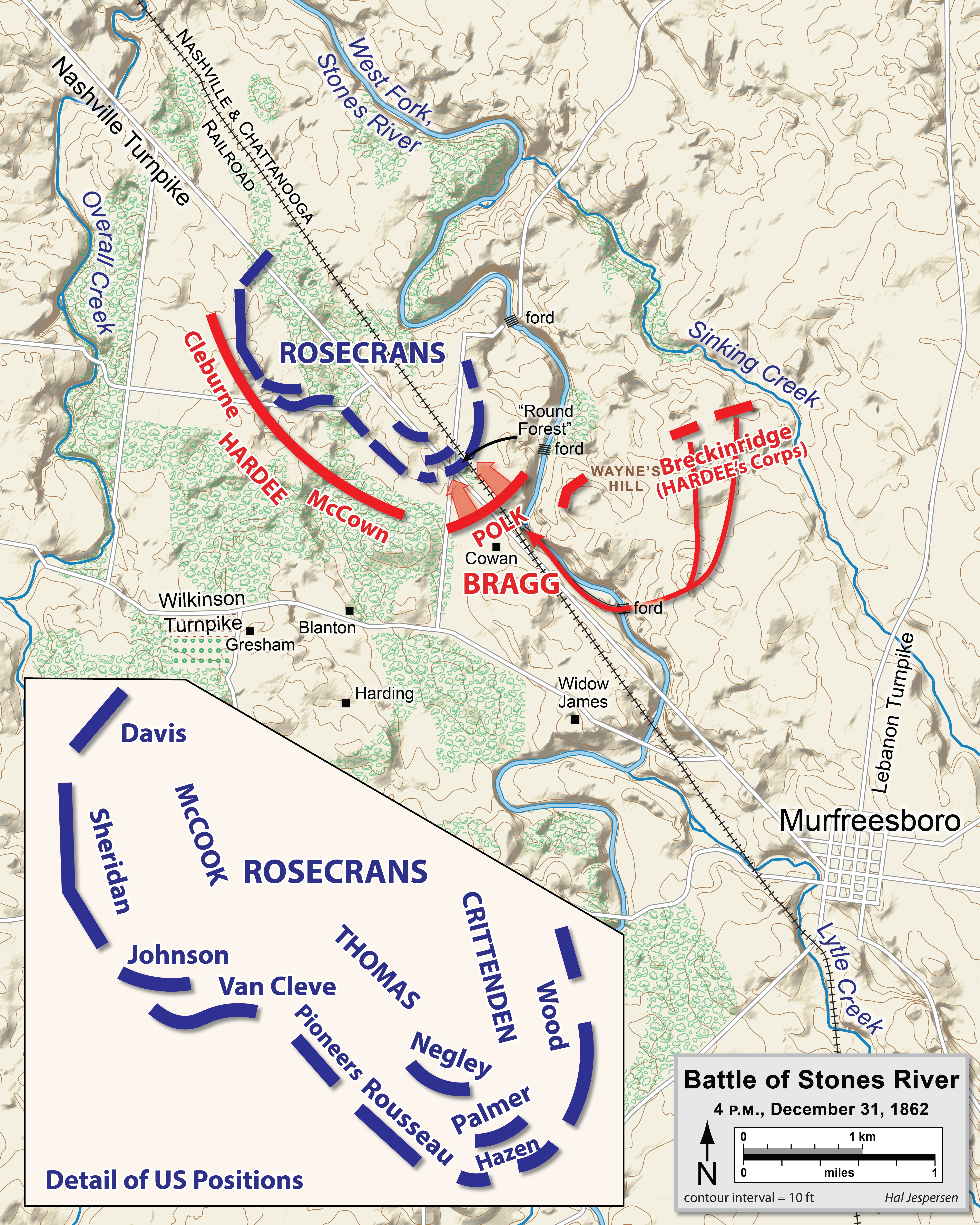 Map of the Battle of Stones River of the American Civil War. Drawn in Adobe Illustrator CS6 by Hal Jespersen. Graphic source file is available at